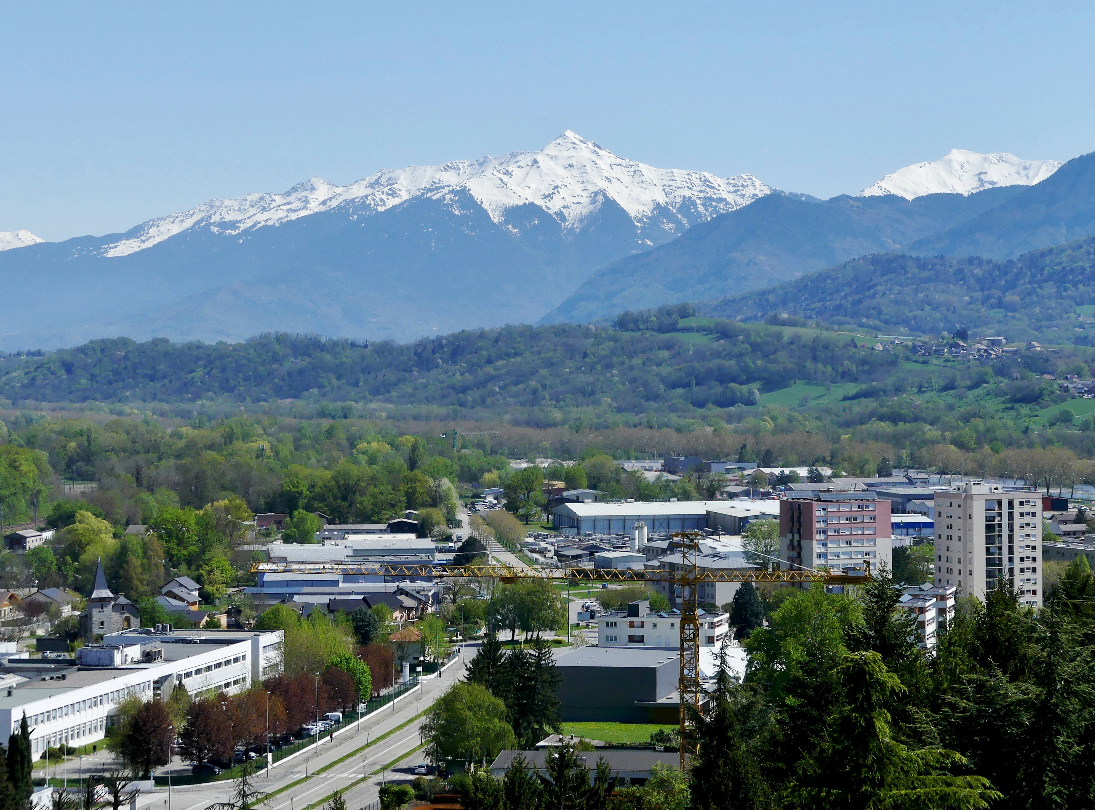 Sight, from Le Catinat tower, of the Eastern business park of Montmélian, in Savoie, France. At the background can be seen the snow-covered Grand Arc mountain.